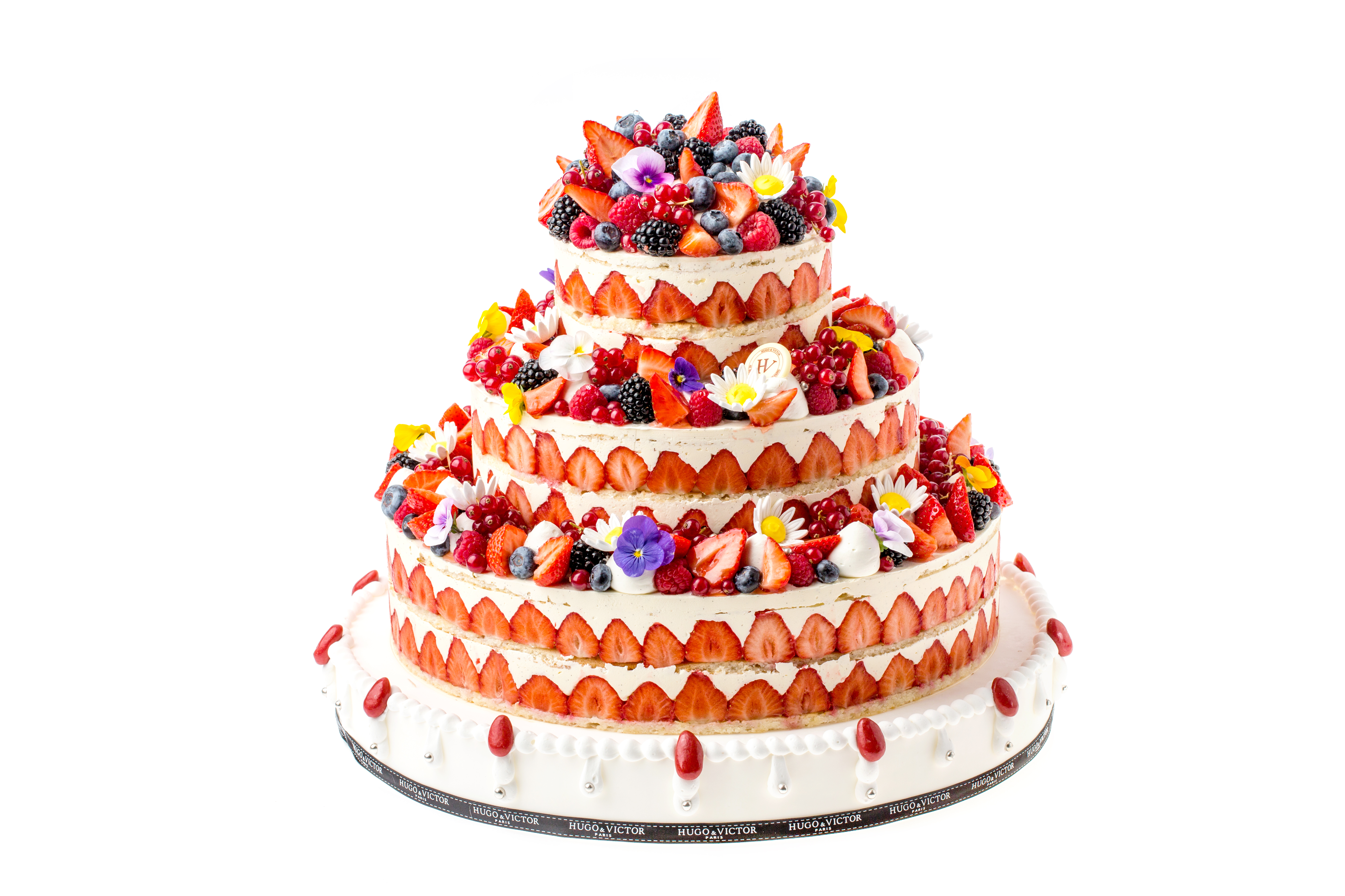 A large of fruit cake for wedding or birthday celebration in life time.